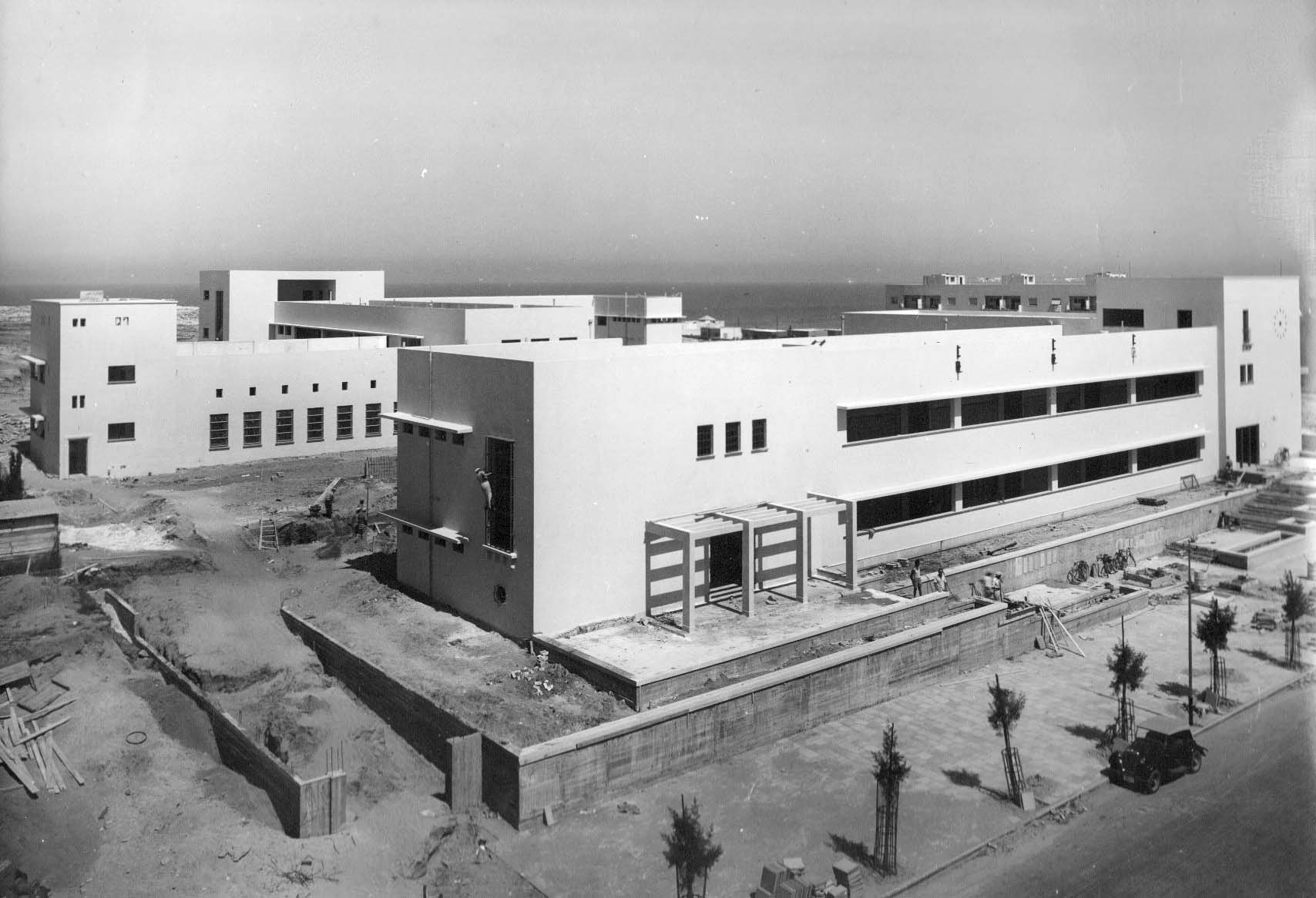 Town Hall — Modern movement style architecture in Tel Aviv-Yaffo (1938).